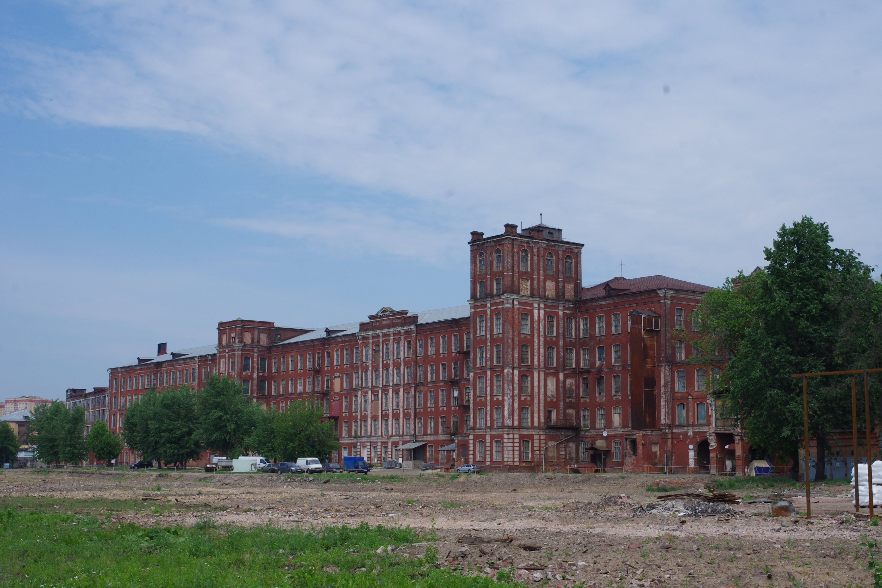 Ramenskoye factory_20140608_068